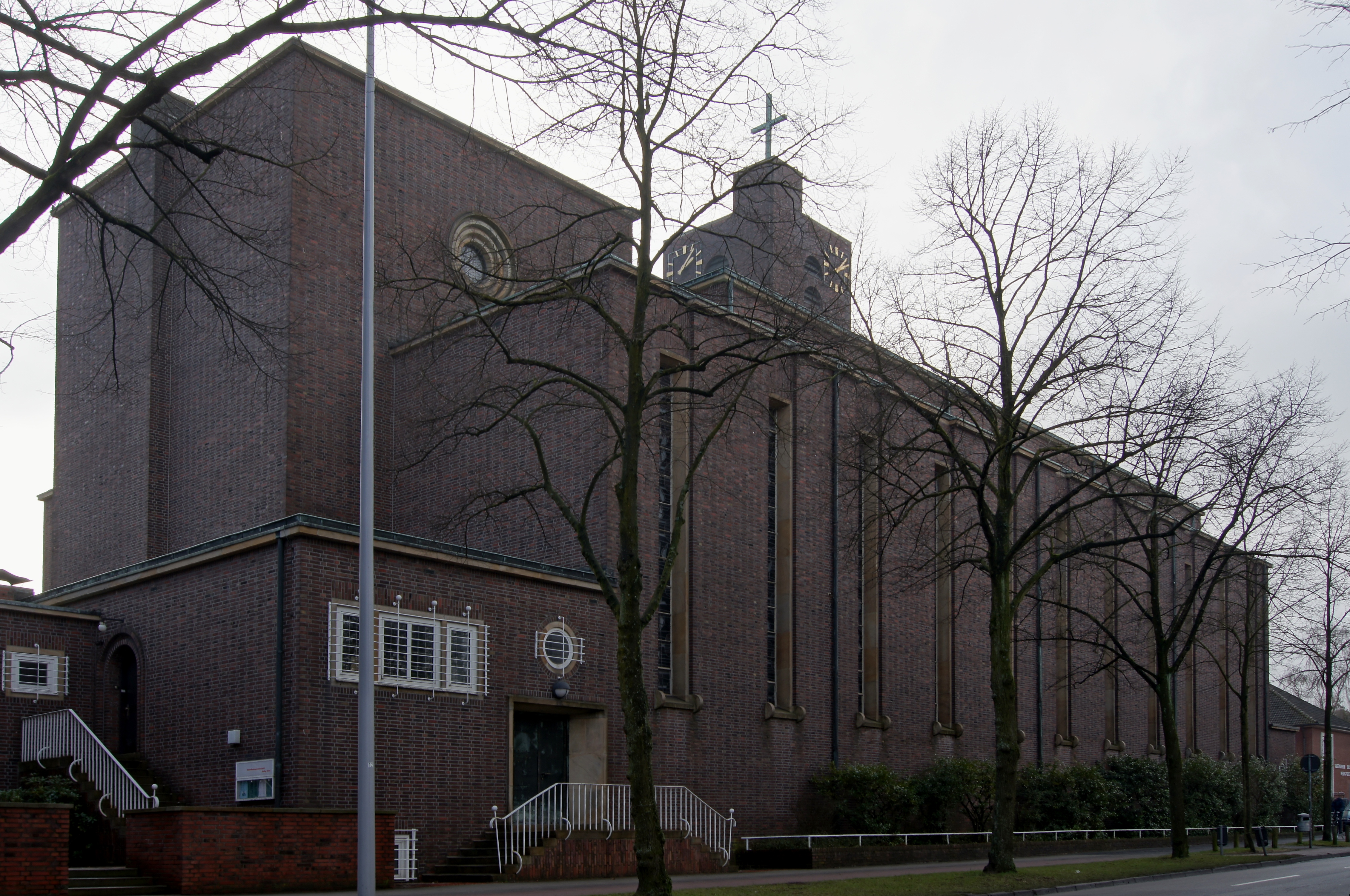 A look to the north front of the Heiliggeistkirche (church of the holy spirit) in Münster, Northrhine-Westphalia, Germany. Architect is Walter Kremer.